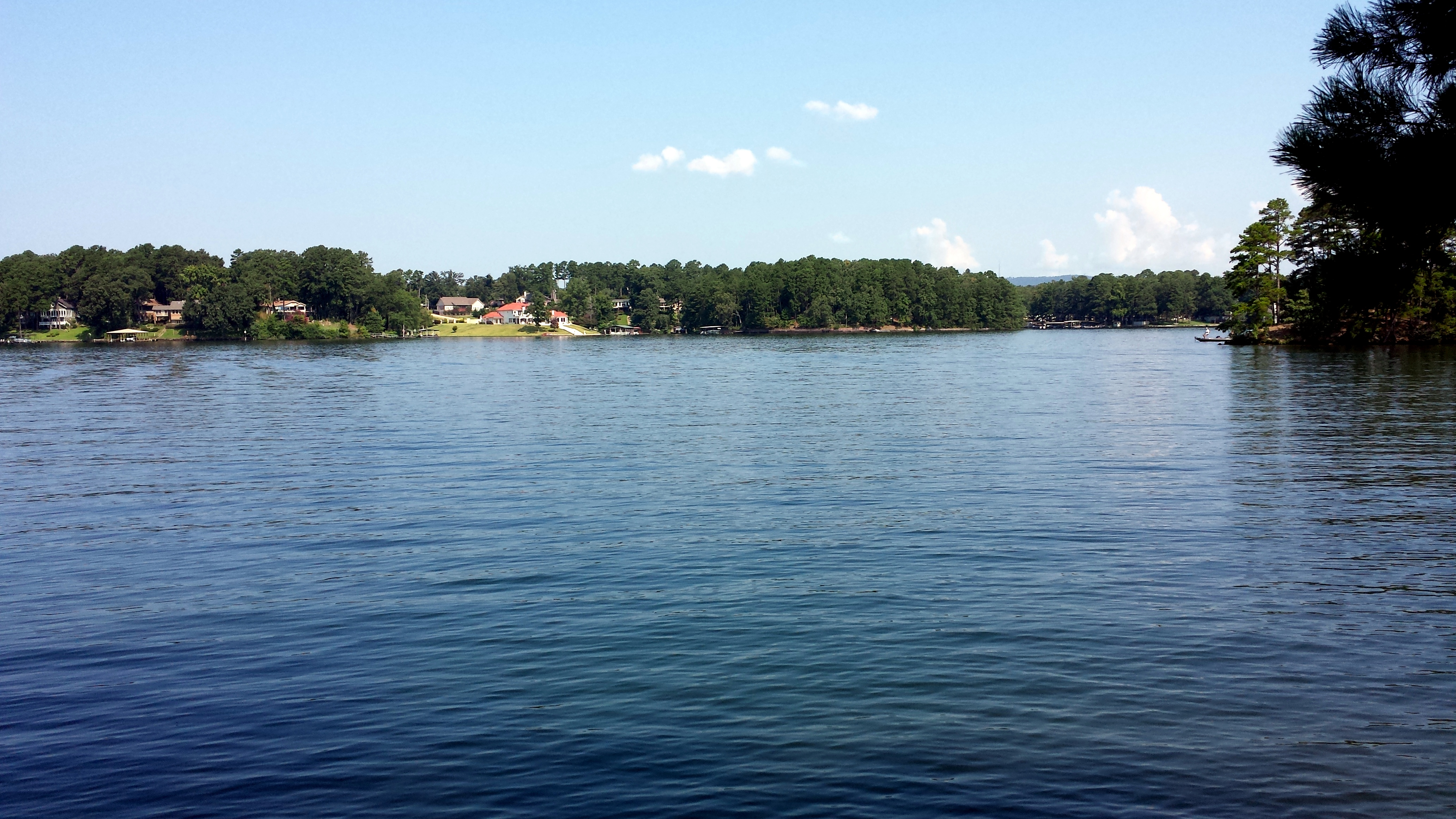 Lake Hamilton south of Hot Springs, AR